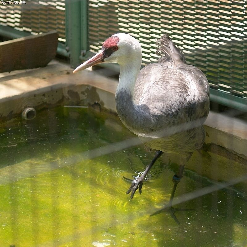 ナベヅル Grus monacha Hooded crane Location 天王寺動物園 Copyright OpenCage